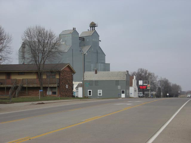 Town of Corson, South Dakota, USA.